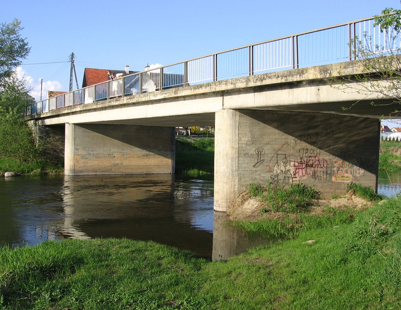 village Szymanów near Wrocław - the bridge over Widawa River